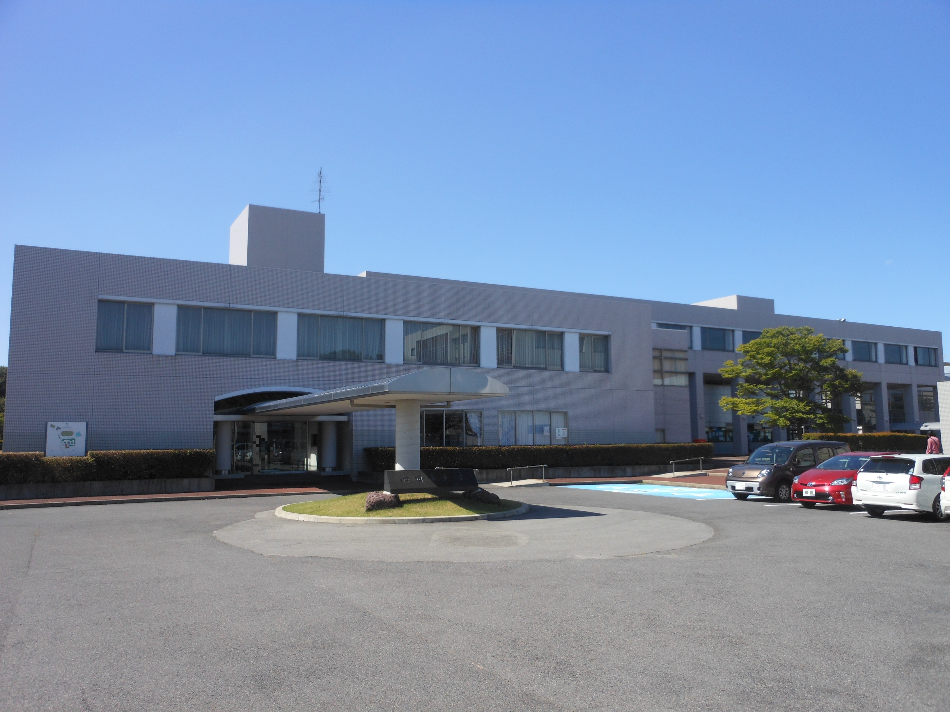 This is the main building of Yokkaichi University, which is located in Yokkaichi, Mie, Japan.